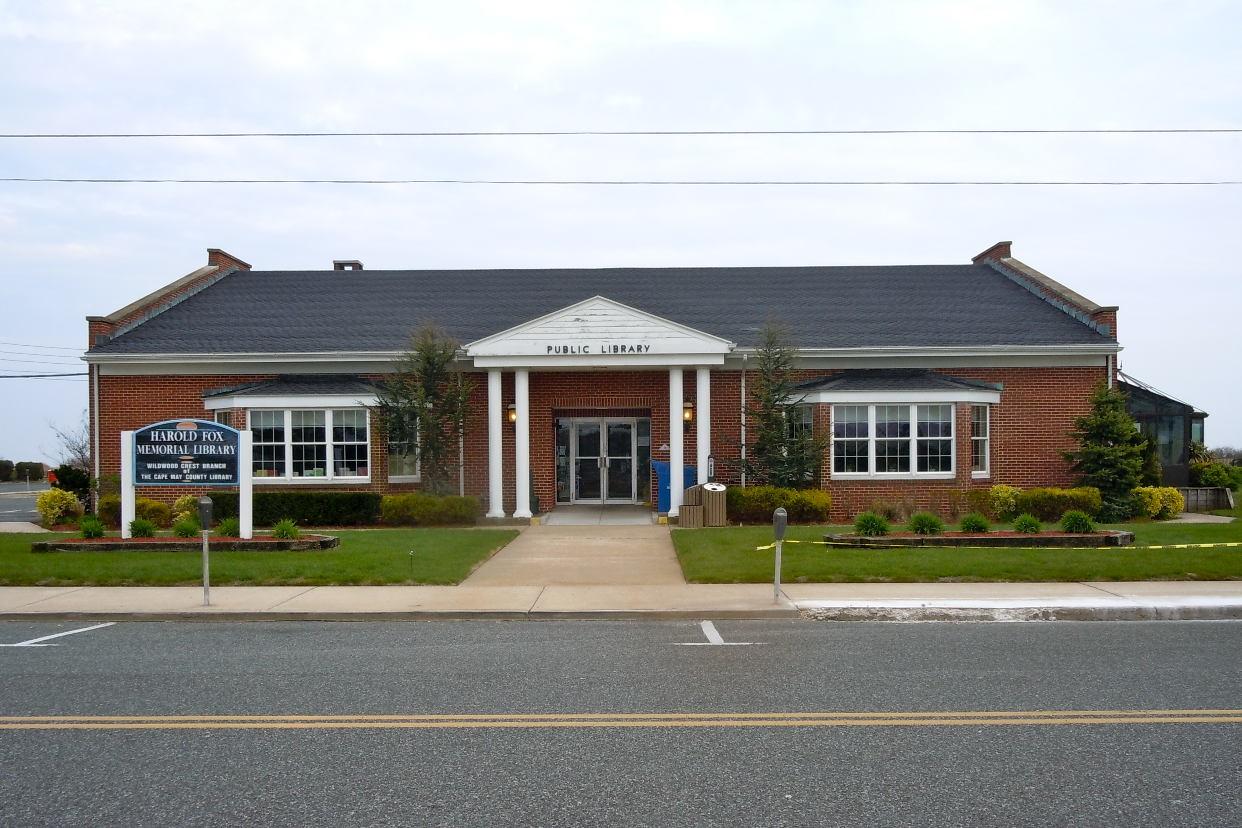 Harold Fox Memorial Library, a part of the Cape May County Library system, in Wildwood Crest New, Jersey